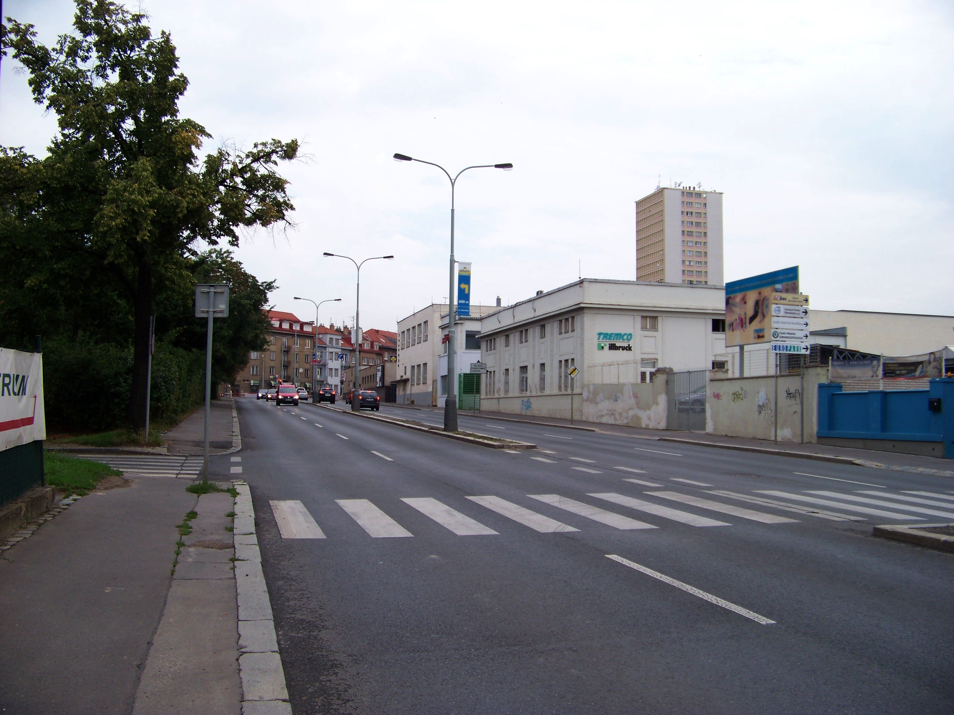 Prague-Strašnice, the Czech Republic. Úvalská street.